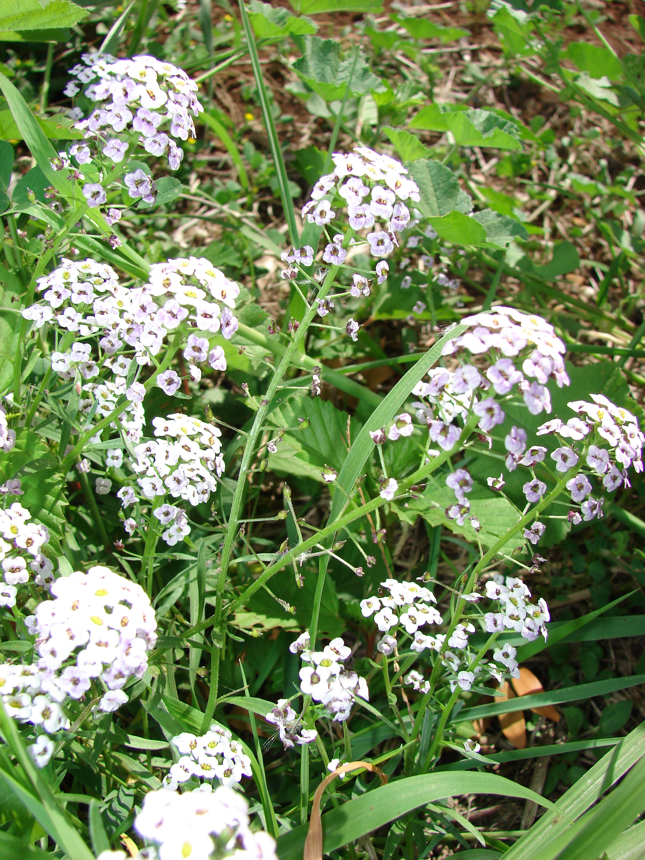 Lobularia maritima (flowers). Location: Maui, Pukalani